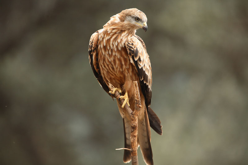 A Red Kite in the Balearic Islands